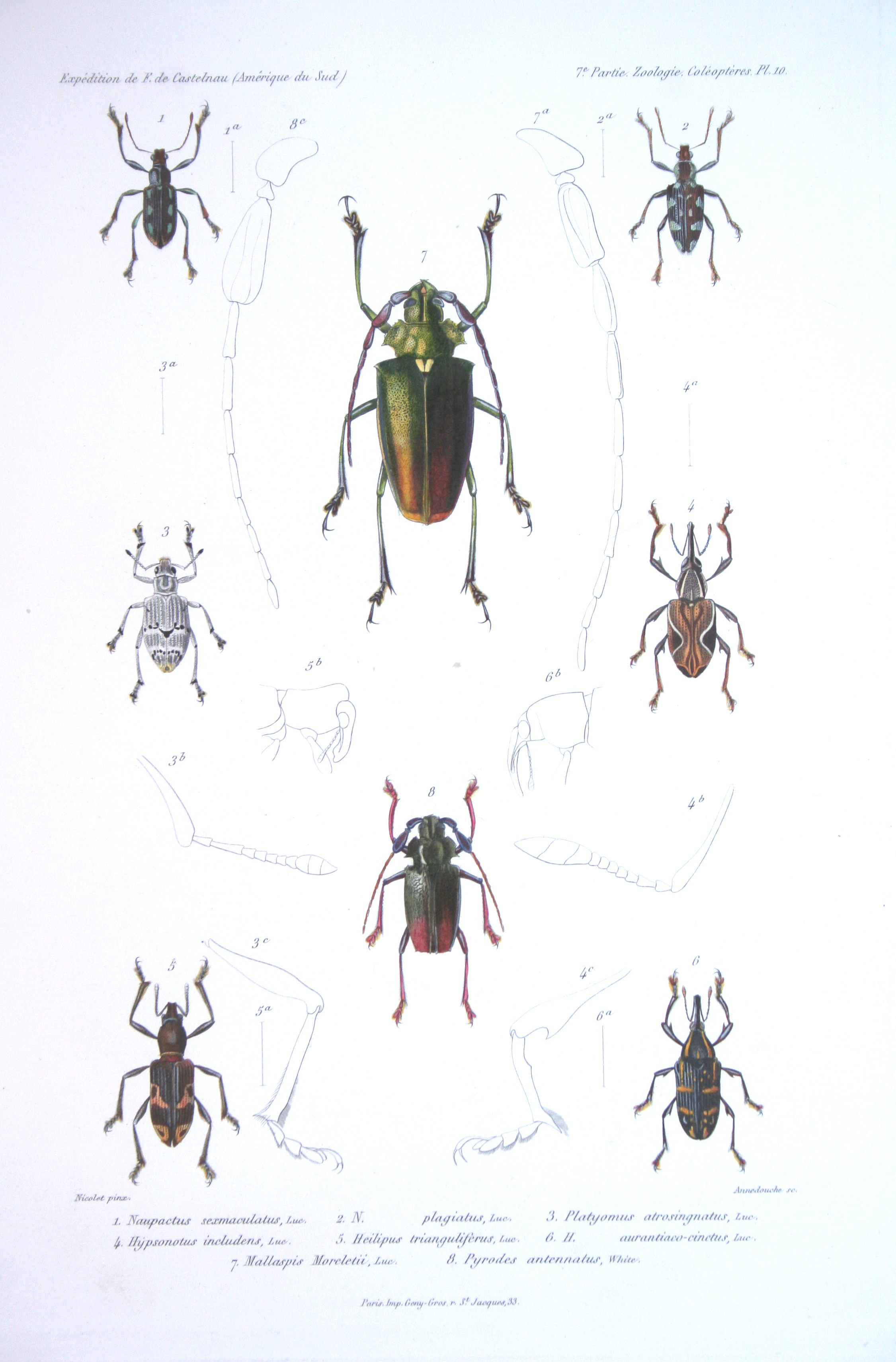 Naupactus sexmaculatus Luc. = Naupactus sexmaculatus Lucas, 1859 (1a: length) N[aupactus] plagiatus Luc. = Naupactus plagiatus Lucas, 1859 (2a: length) Platyomus atrosingnatus Luc. = Platyomus atrosignatus Lucas, 1859 (3a: length, 3b: antenna, 3b: hindleg) Hypsonotus includens Luc. = Hypsonotus includens H.Jekel, 1856 (4a: length, 4b: antenna, 4b: hindleg) Heilipus trianguliferus Luc. = Heilipus triangulifer Lucas, 1859 (5a: length, 5b: head from lateral) H[eilipus] aurantiaco-cinctus Luc. = Heilipus aurantiacocinctus Lucas in Castelnau, 1859 (6a: length, 6b: head from lateral) Mallaspis Moreletii Luc. = Scatopyrodes moreletii (Lucas, 1851) (7a: antenna) Pyrodes antennatus Luc. = Charmallaspis pulcherrima (Perty, 1832) (8[a]: antenna)